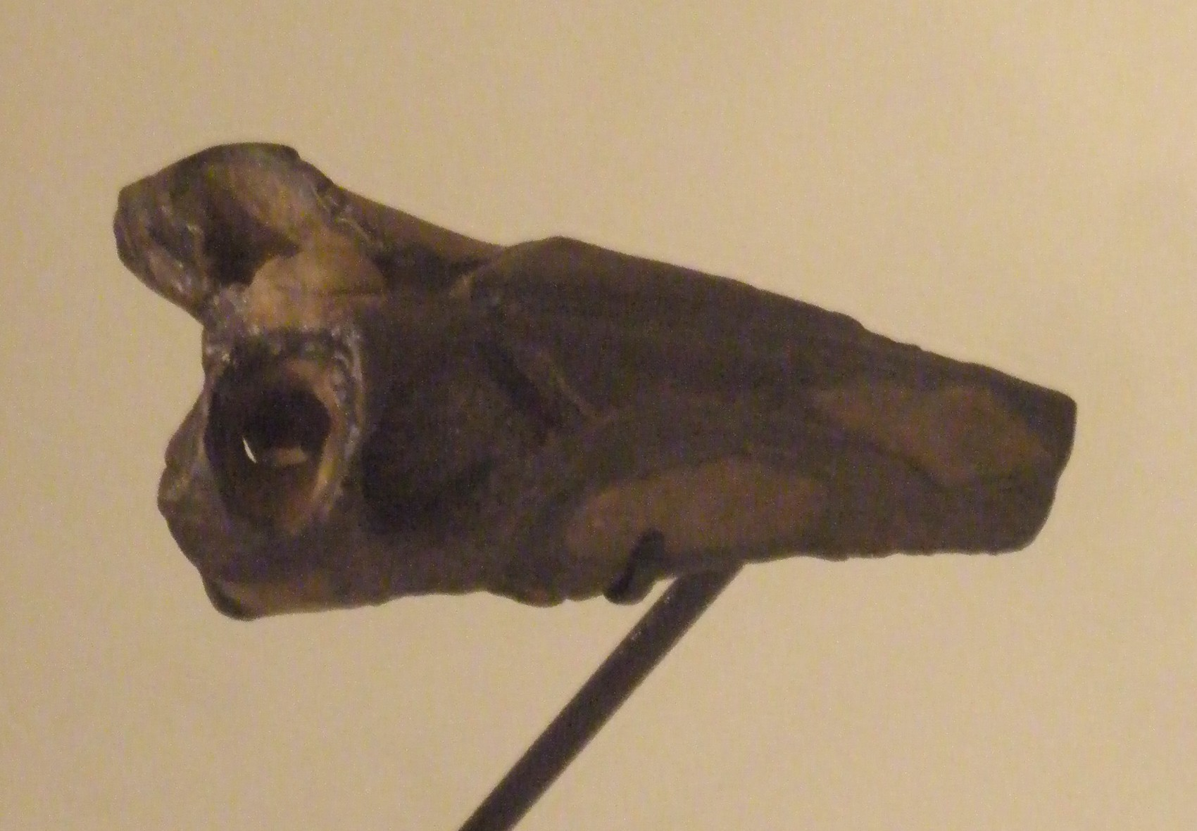 Fossil of Parapsicephalus purdoni, a fossil pterosaur